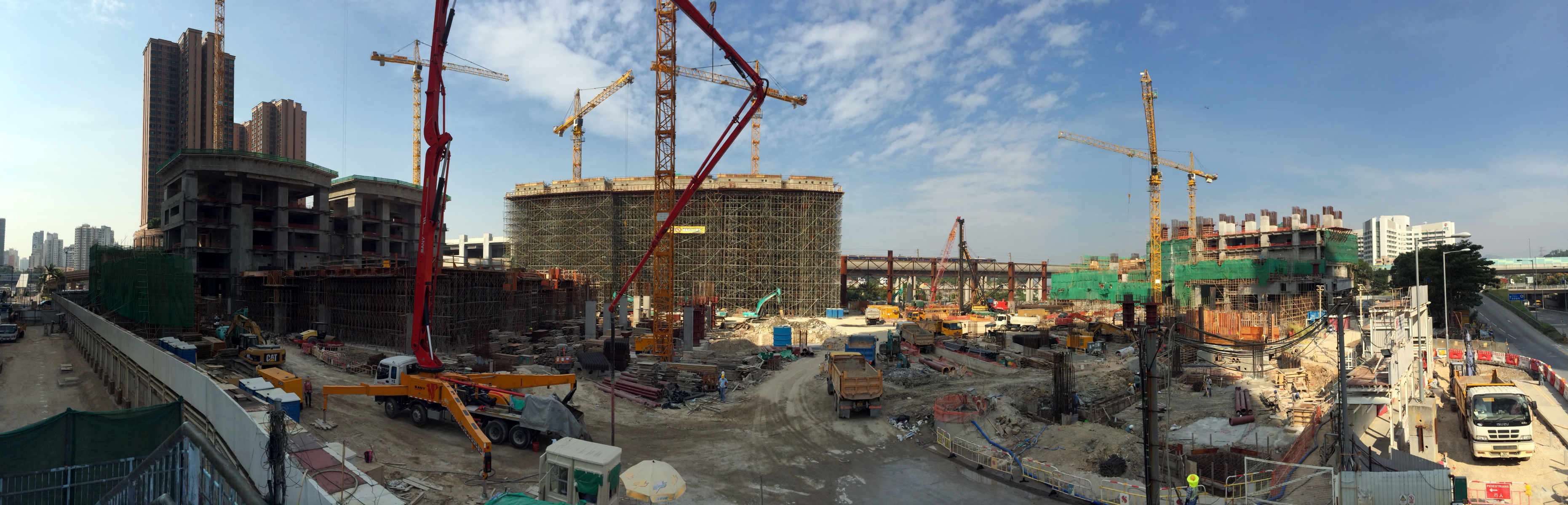 YOHO Town Phase 3 Site